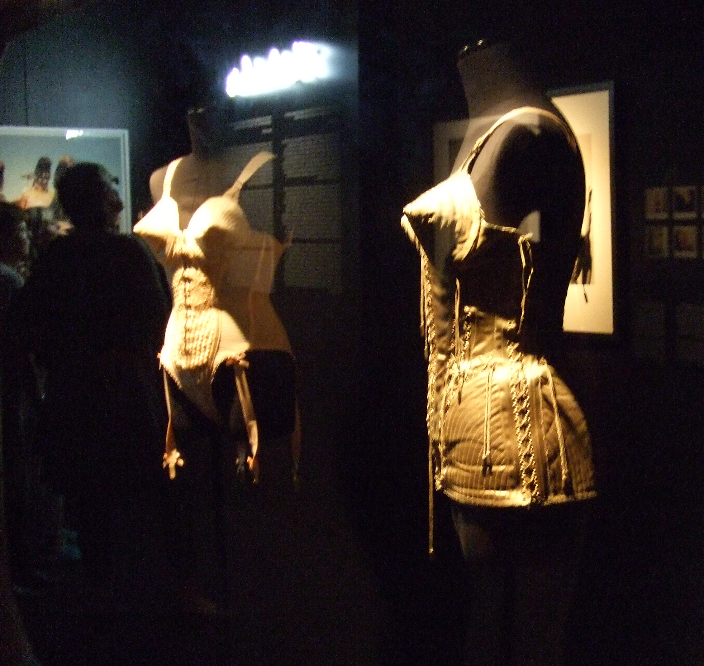 Silk corset with cone bra made by Jean-Paul Gaultier. From the exhibition "The Fashion World of Jean Paul Gaultier: From the Sidewalk to the Catwalk", at the Swedish Centre for Architecture and Design in Stockholm 2013.